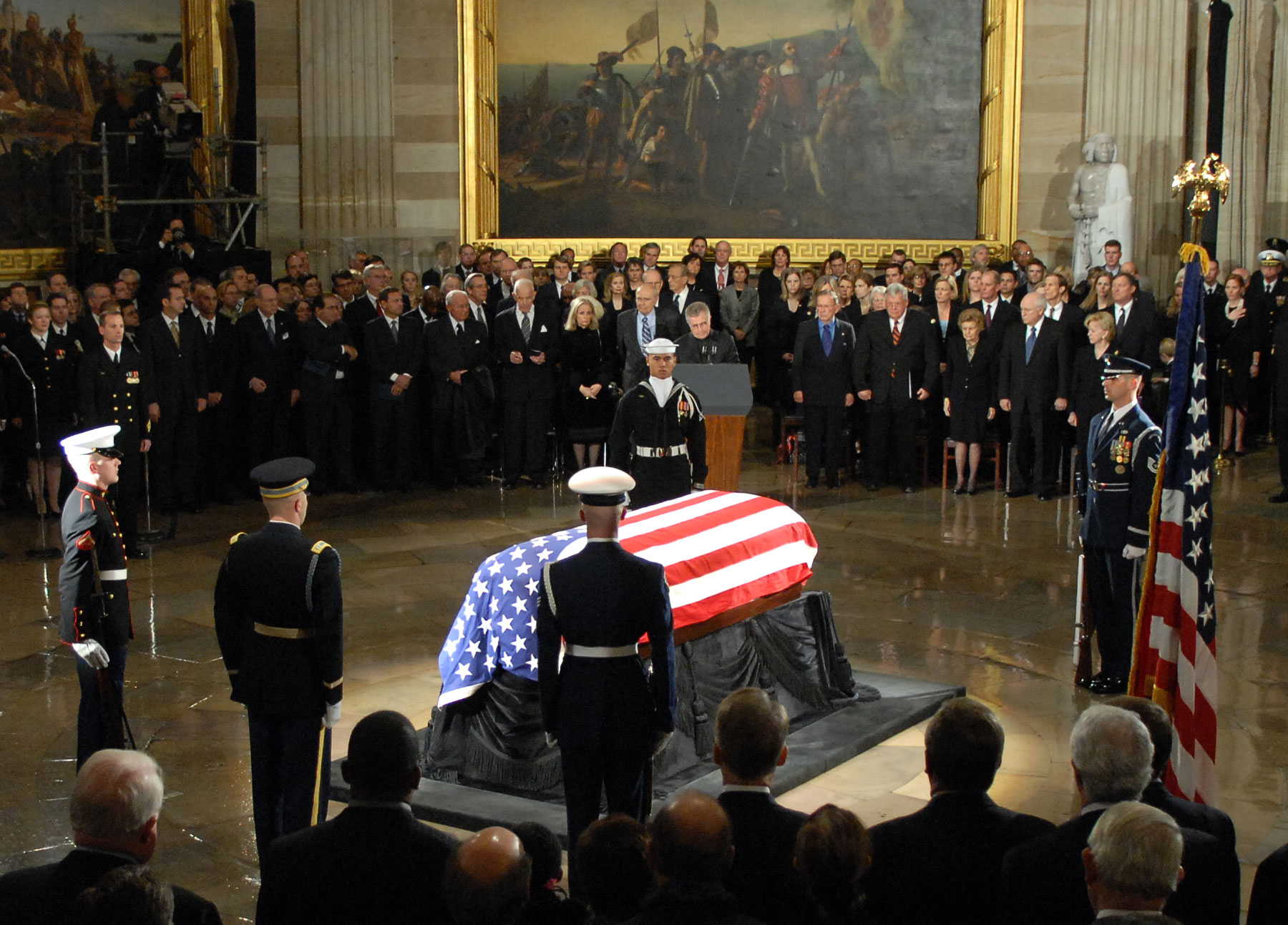 Reverend Daniel P. Coughlin, chaplain, House of Representatives gives the invocation during memorial services for former President Gerald R. Ford at the U.S. Capitol Rotunda, Dec. 30, 2006. Defense Dept. photo by William D. Moss